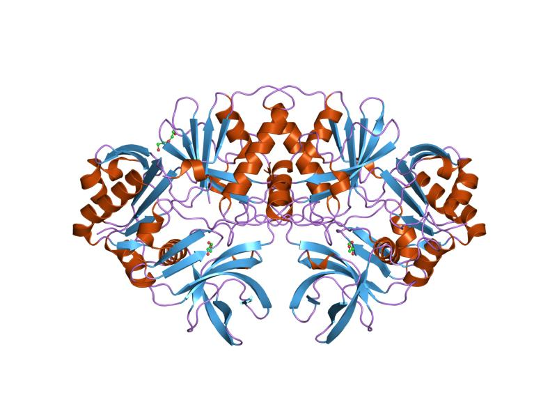 Cartoon representation of the molecular structure of protein registered with 1v5v code.